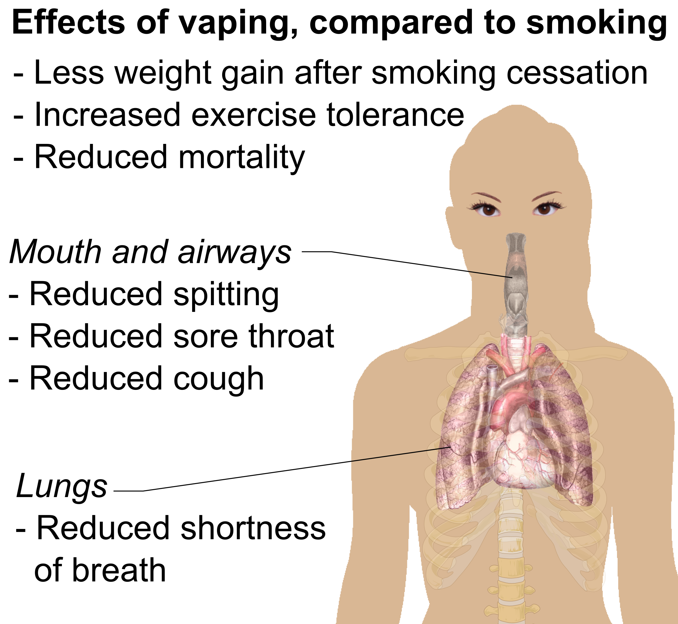 Effects of vaping, compared to tobacco smoking. Entries Switching from tobacco to vaping: reduced weight gain after smoking cessation[1] increased exercise tolerance[1] reduced risk of death[2] Mouth and airways: Reduced spitting, sore throat and cough[3] Lungs: Reduced shortness of breath[3] References ↑ a b Sanford Z, Goebel L (2014). "E-cigarettes: an up to date review and discussion of the controversy". W V Med J 110 (4): 10–5. PMID 25322582. ↑ (2015). "Electronic cigarette: a possible substitute for cigarette dependence". Monaldi Archives for Chest Disease 79 (1). PMID 23741941. ISSN 1122-0643. ↑ a b (2014). "Water pipes and E-cigarettes: new faces of an ancient enemy". Journal of the Association of Physicians of India 62 (4): 324-328. PMID 25327035. To discuss image, please see Template talk:Human body diagrams